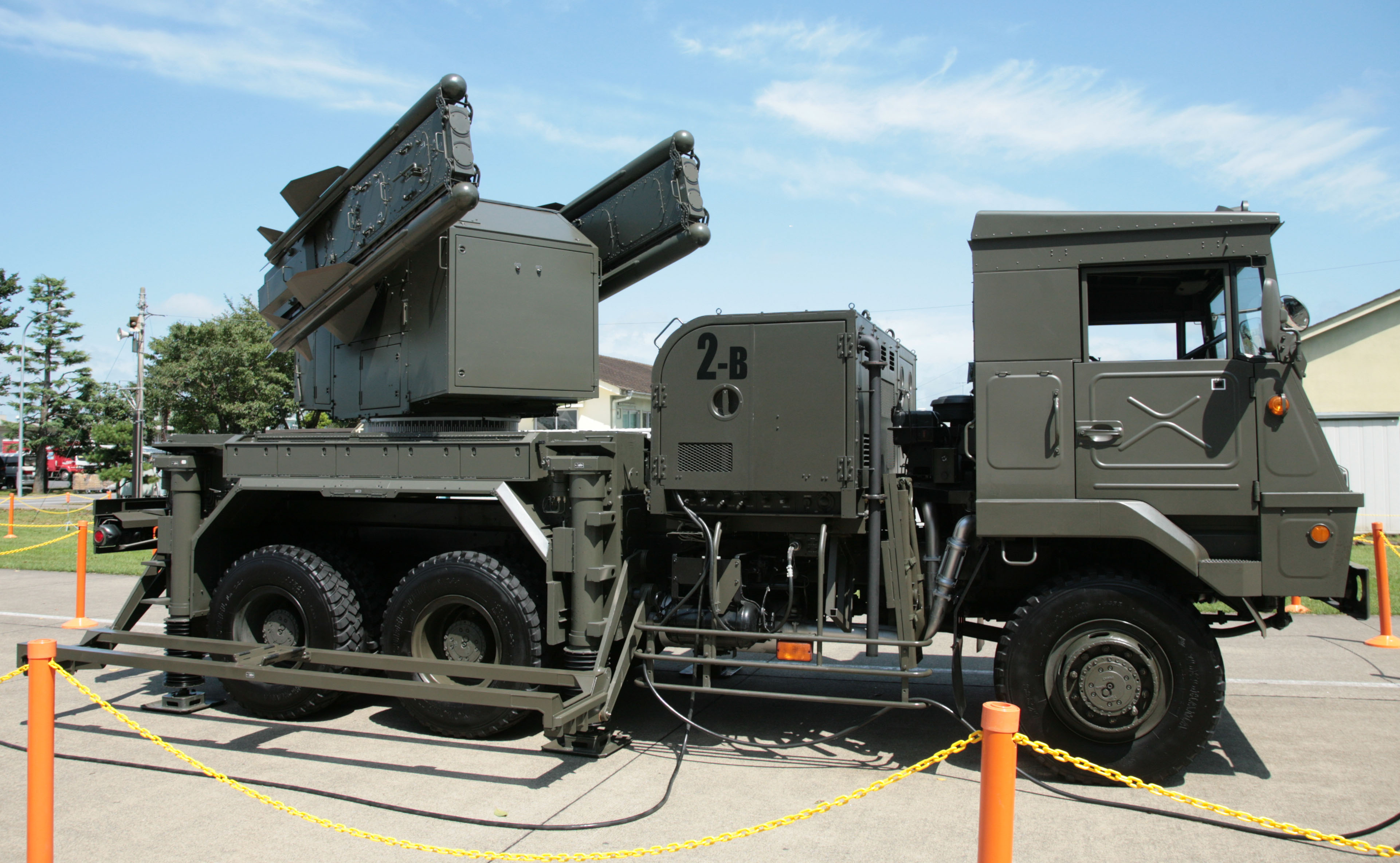 A Japanese Tan-SAM Type 81 SAM 6 x 6 launcher